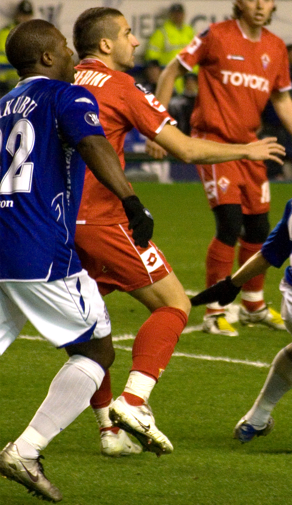 Alessandro Gamberini Fiorentina